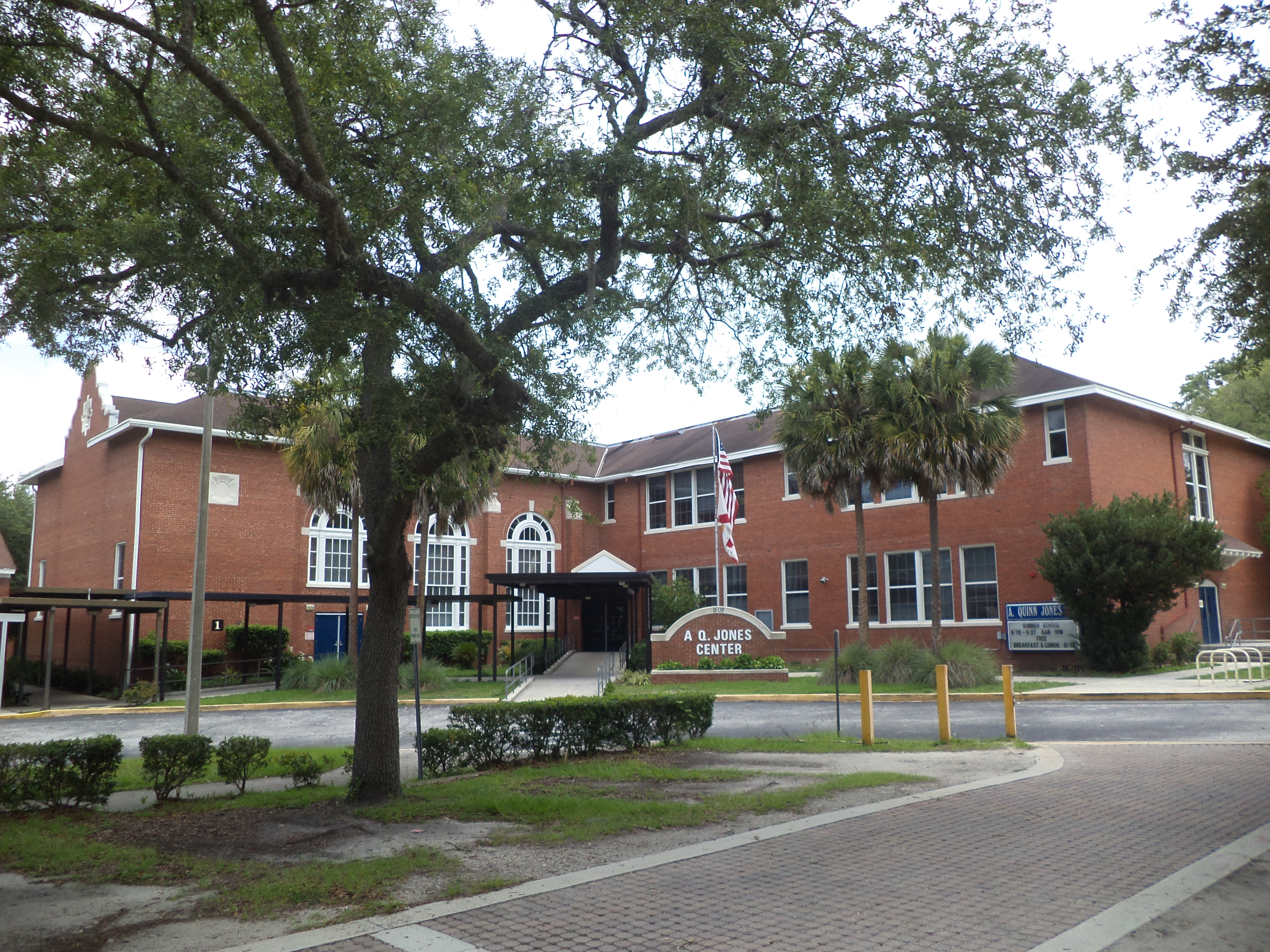 A. Quinn Jones Center school flagpole, Gainesville, Alachua County, Florida